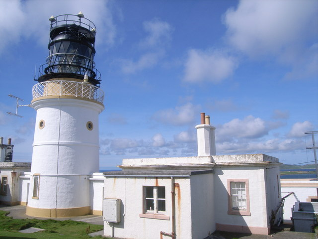 Sumburgh Head lighthouse